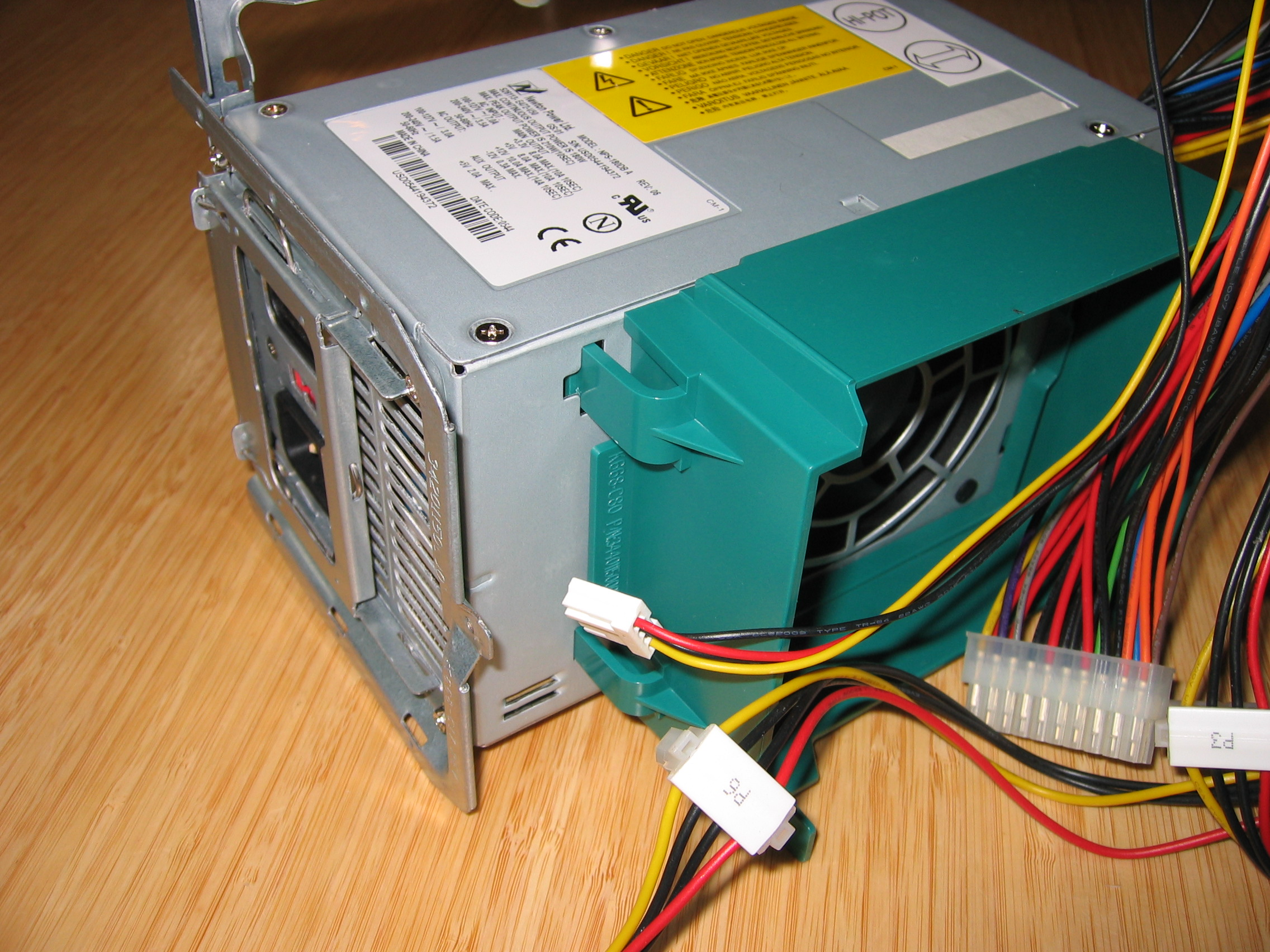 PC Power Supply Unit PSU wird CPU cooler air flow funnel